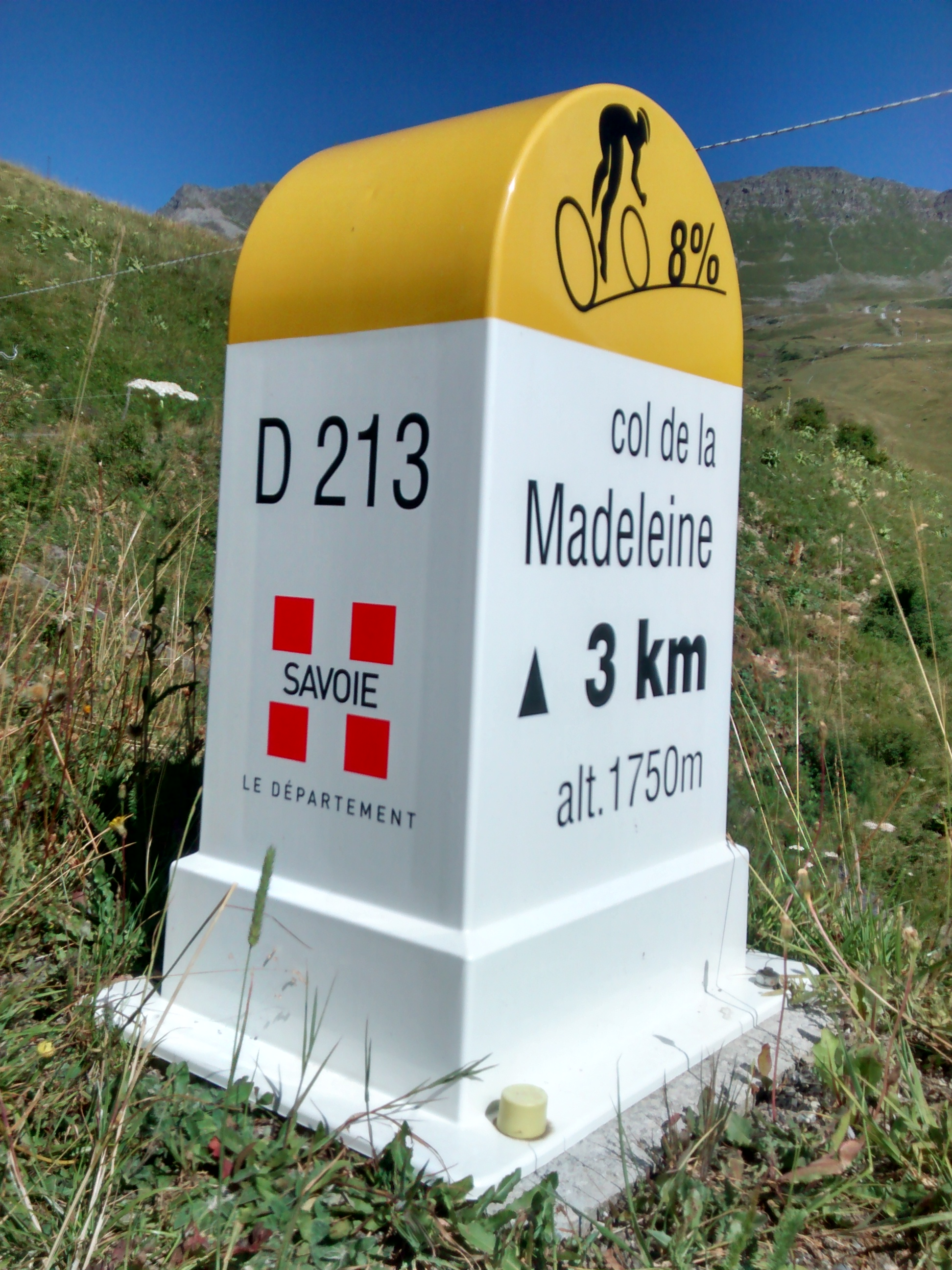 2015 Mountain pass cycling milestone - de la Madeleine La Chambre